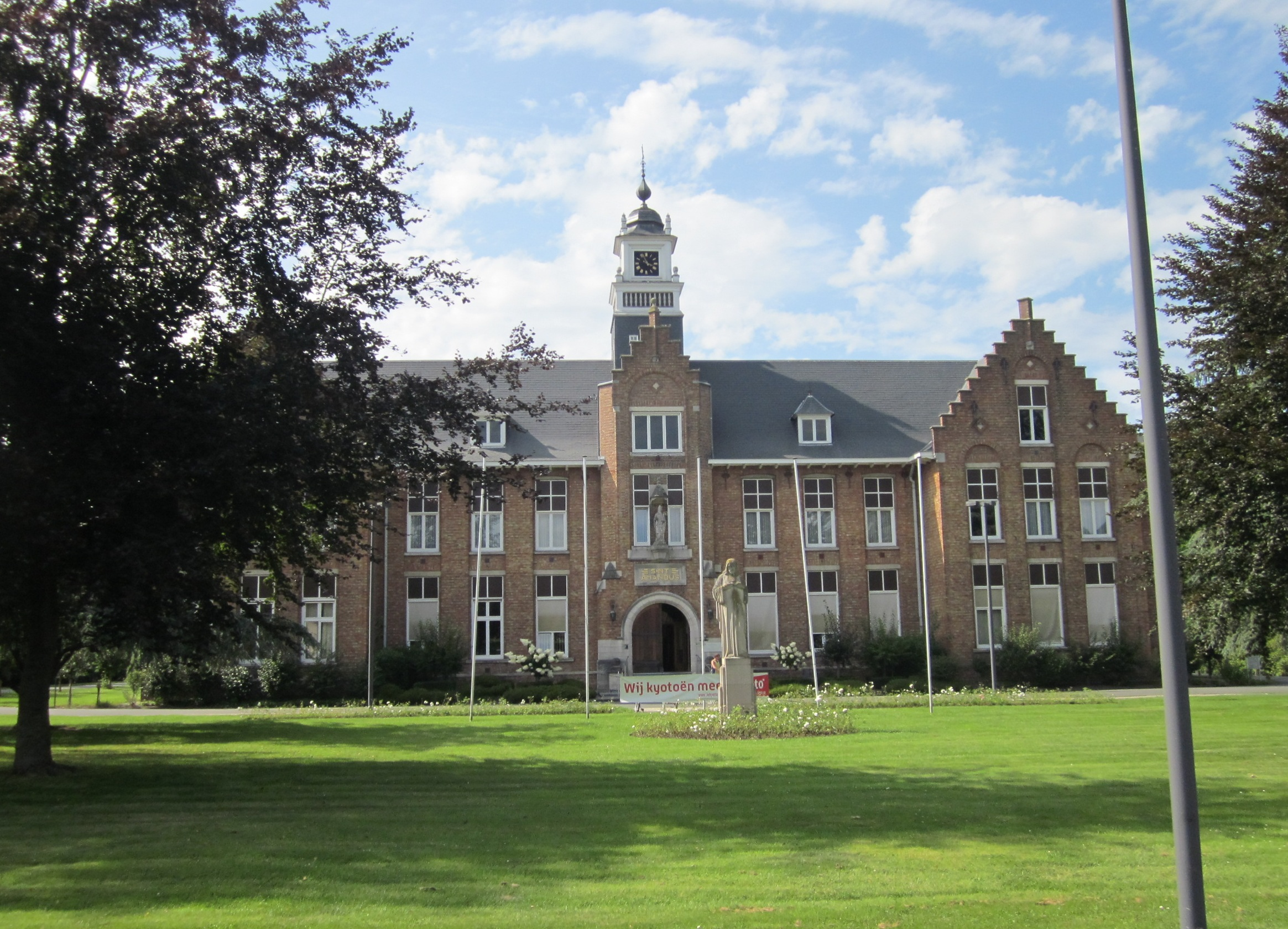 Psychiatric Center in Beernem, Belgium